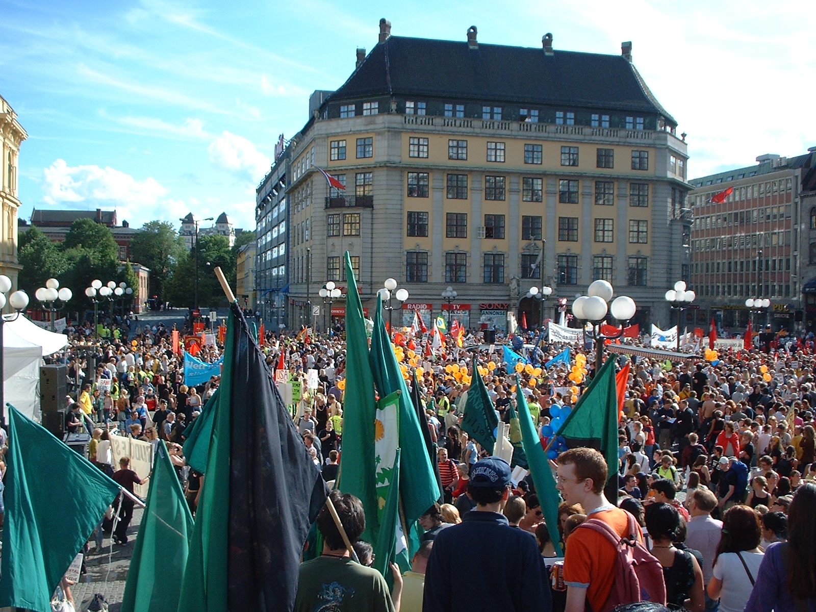 from the demonstrations in oslo during the world bank conference in june 2002